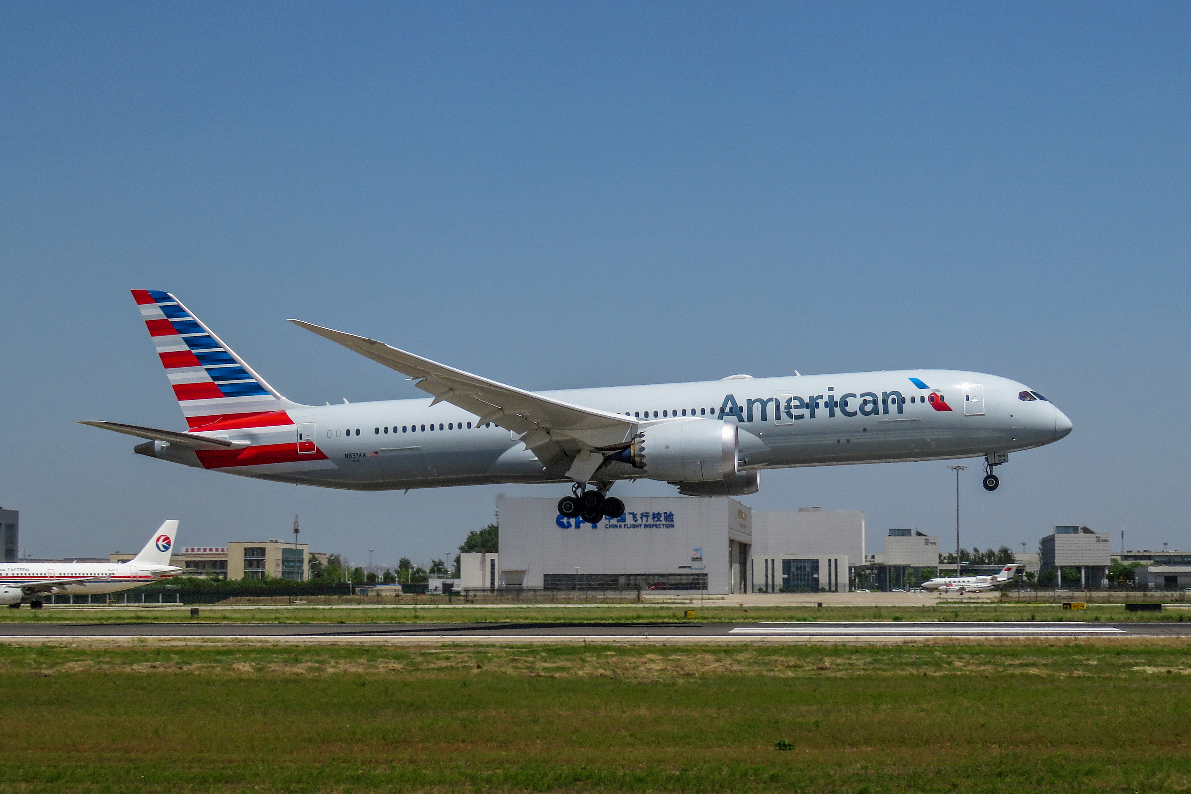 American 181 from Los Angeles. Rare visitor at Tiejiangying.